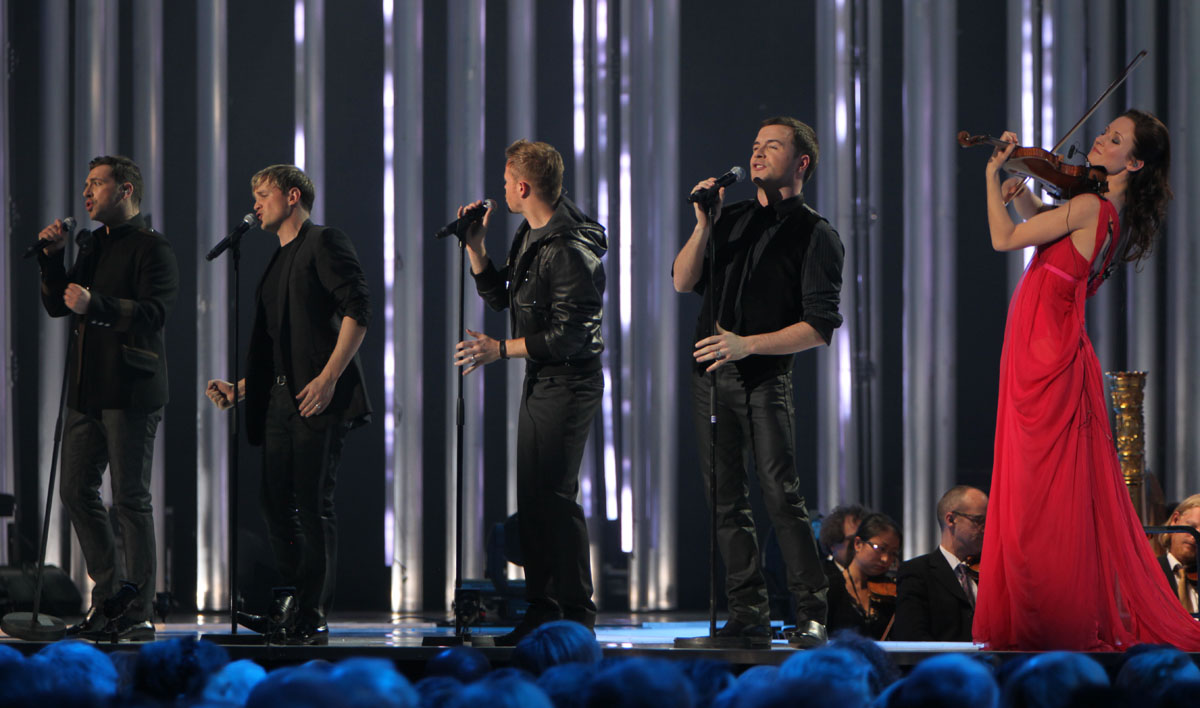 Westlife and Ragnhild Hemsing at The Nobel Peace Price Concert 2009